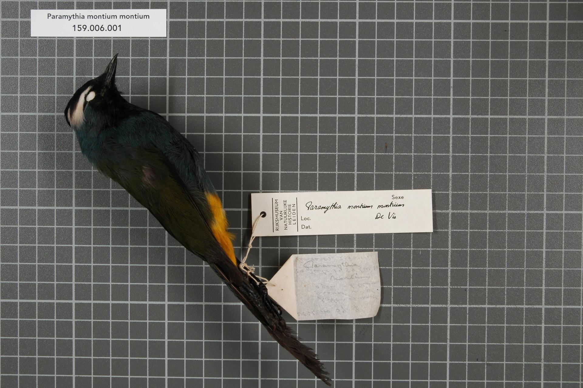 Paramythia montium montium De Vis, 1892